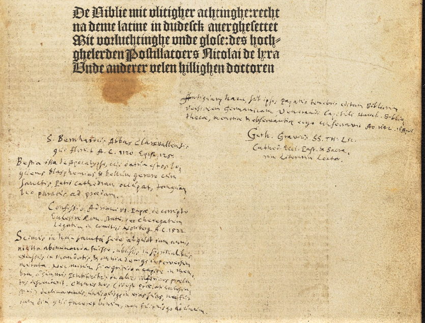 Title page of Biblia [Low German, with glosses], Lübeck: Arndes 1494 with dedication inscription of Gerhard Grave to the chapter library of Hamburg cathedral, April 1642, Bodleian Library, Oxford, Auct. M 3.9